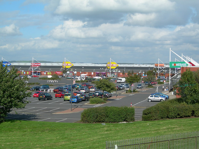 Heathfield Retail Park Just the same as any other out-of-town retail park.